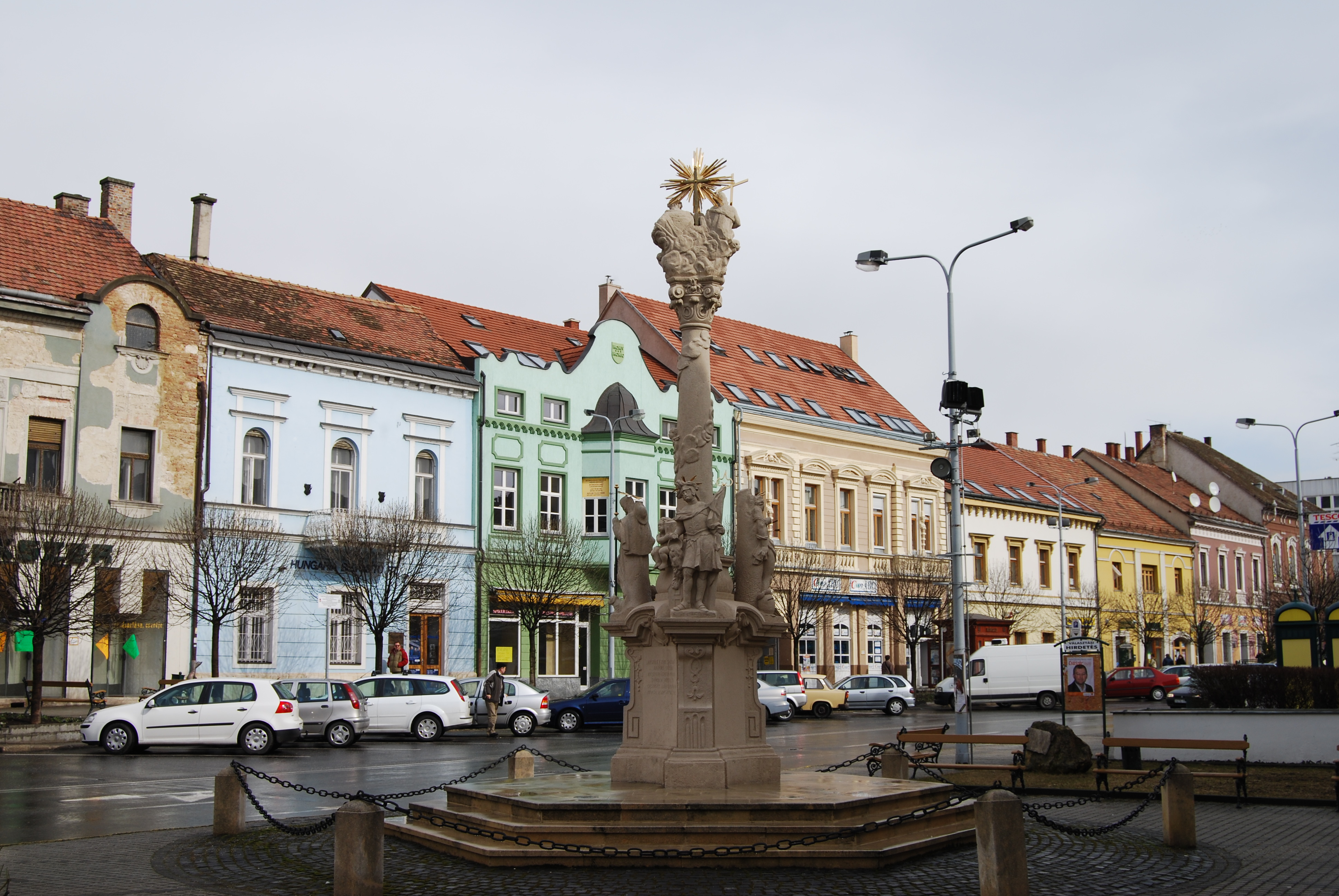 Tapolca town near Balaton lake, Hungary. Sight to the mainroad and square.